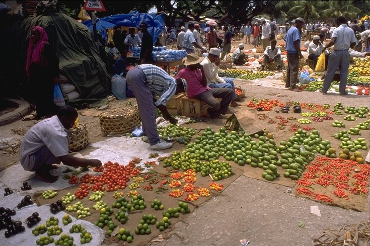 Zanzibar, 1996 Photo by User:Esculapio